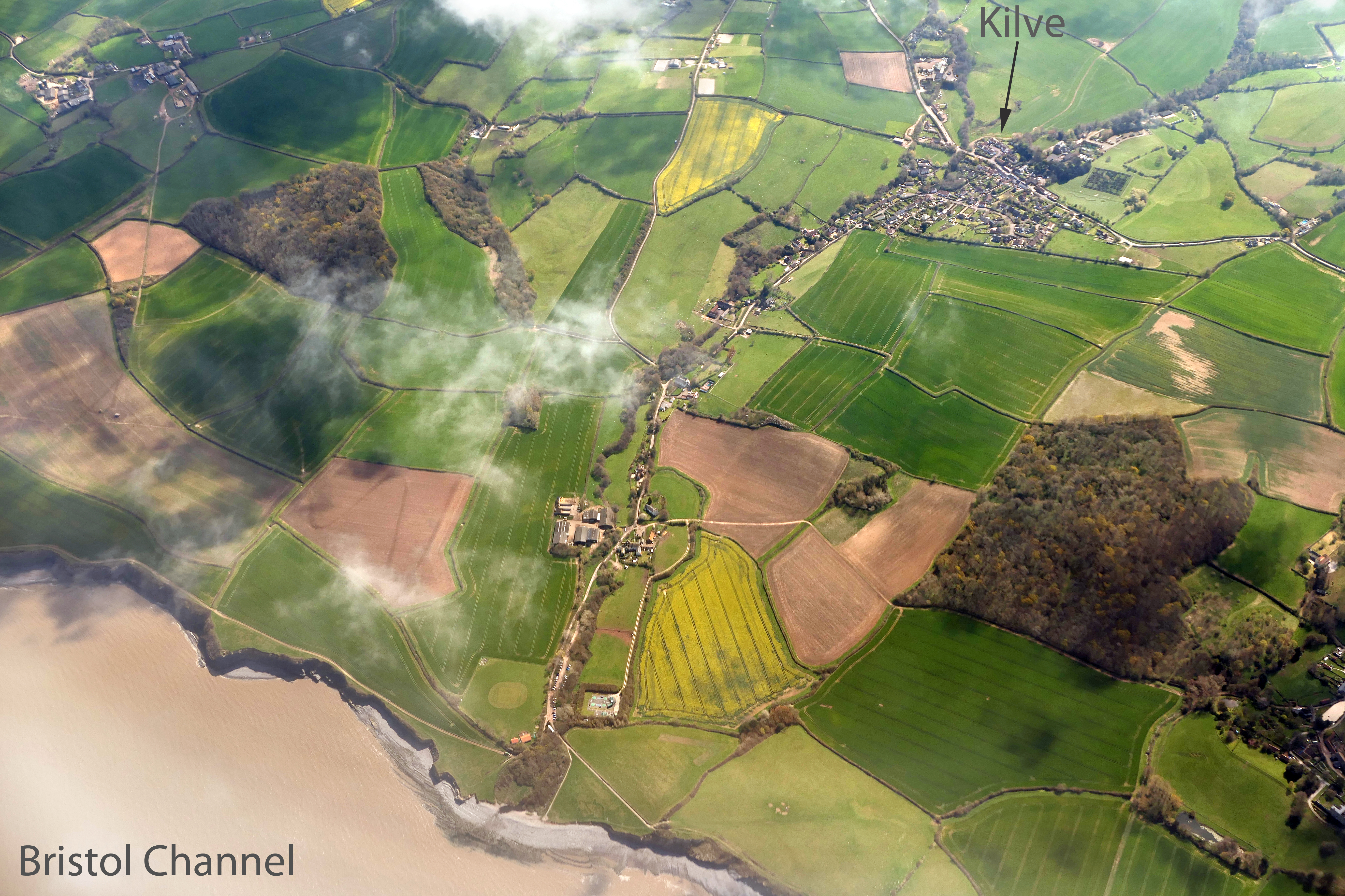 An aerial view of Kilve in Somerset, England.